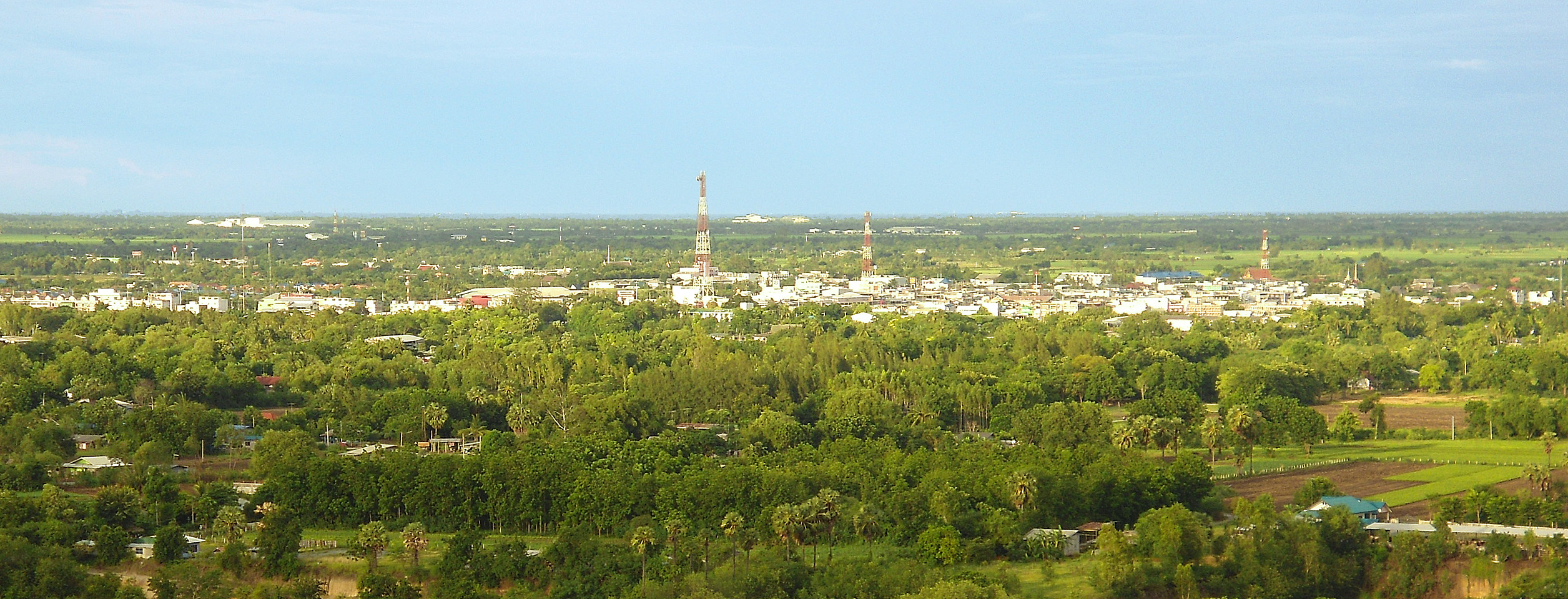 U Thong District, Suphanburi province, Thailand